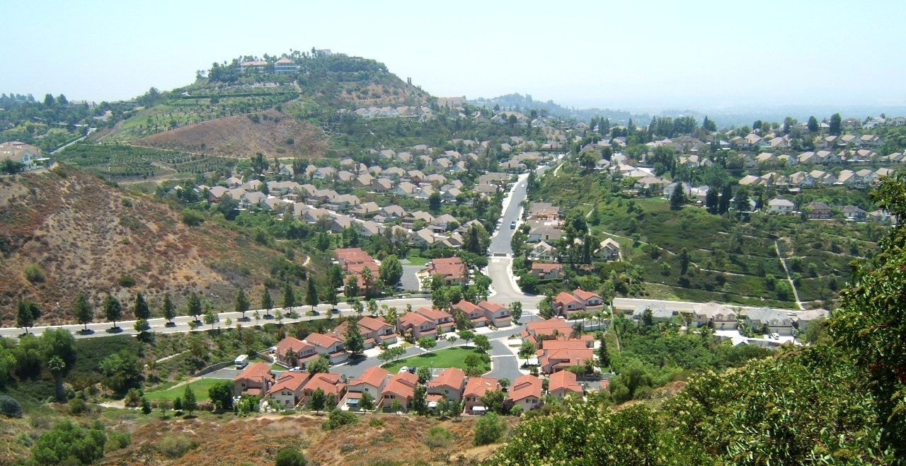 Orange Hills, an upper middle class community of the City of Orange, Orange County, California